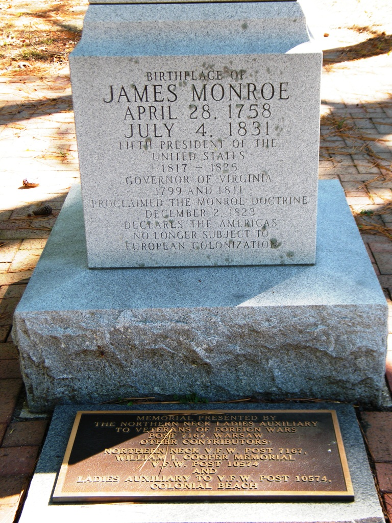 James Monroe Family Home Site